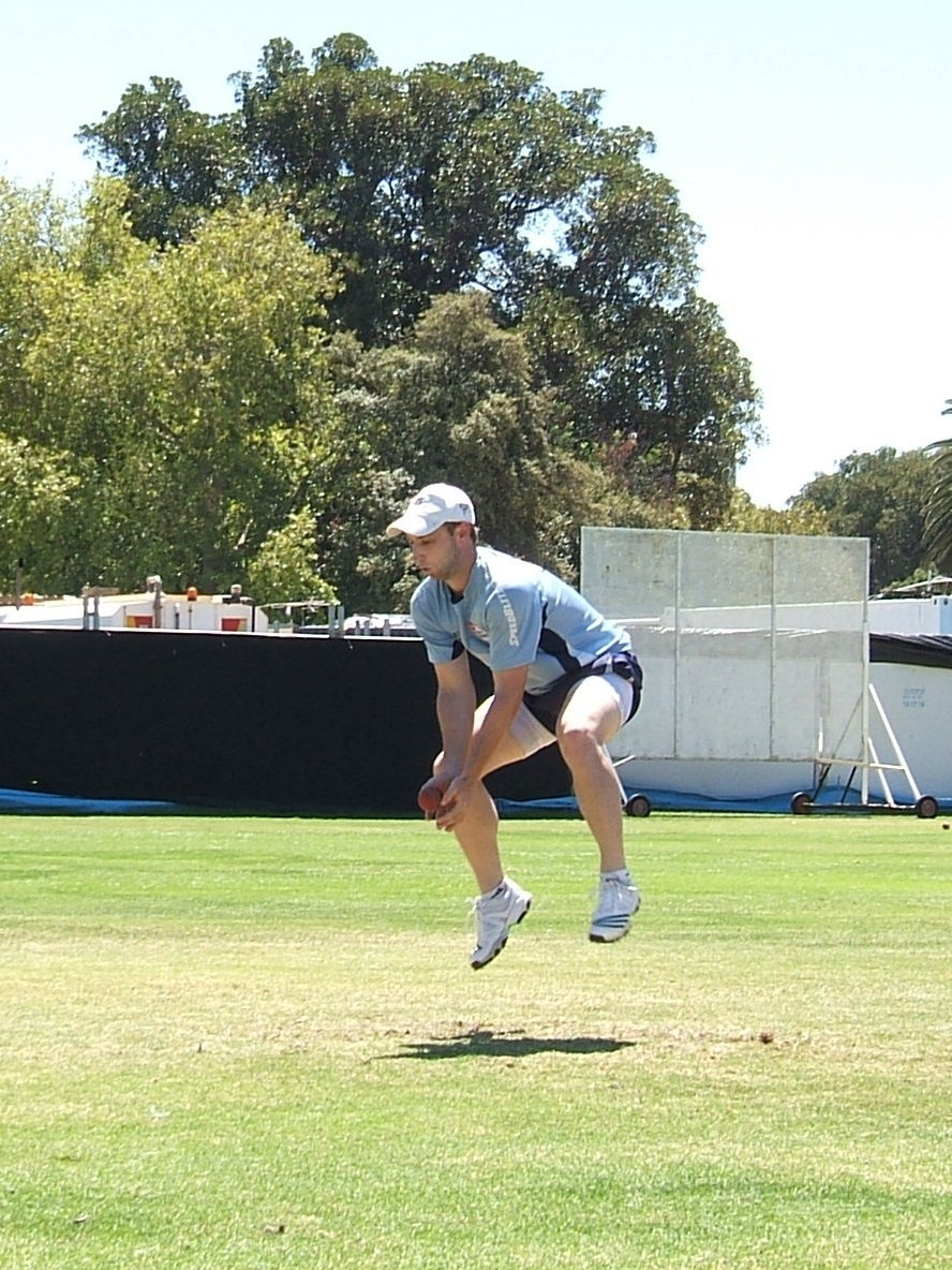 Phillip Hughes takes a catch at the Adelaide Oval